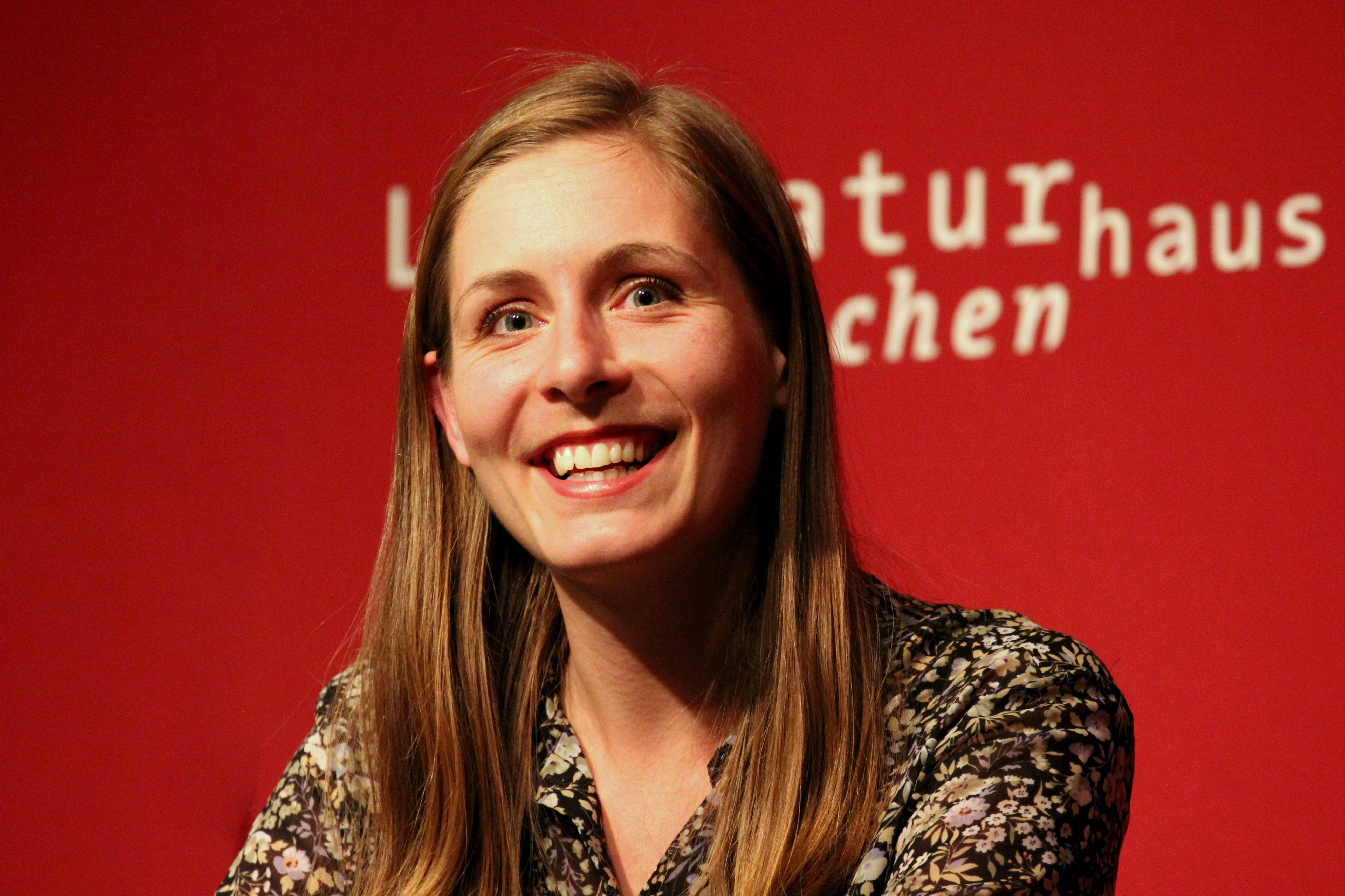 Eleanor Catton, Book presentation in Munich Literature House